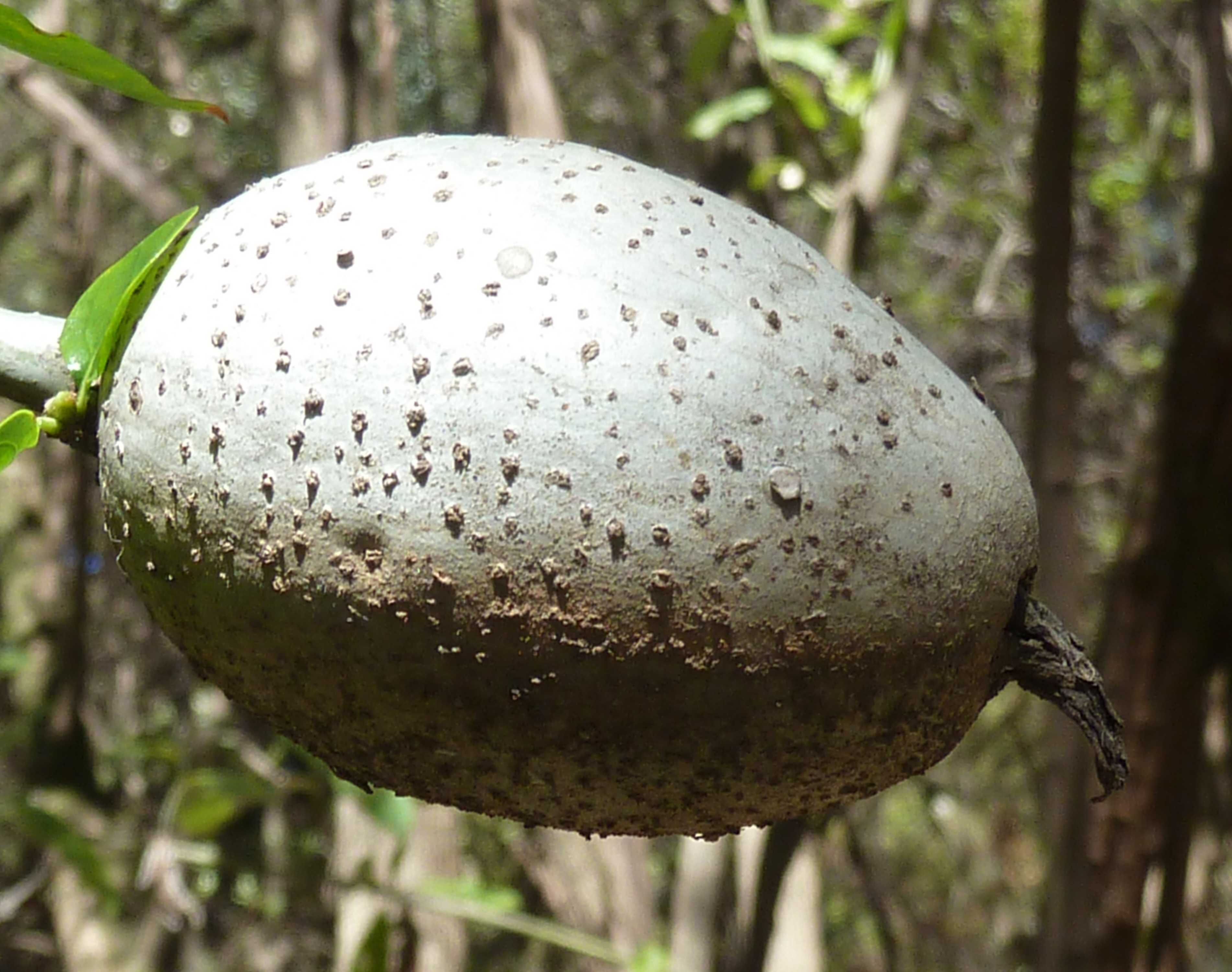 Dry fruit of a White gardenia in the gardens of the Union Buildings, Pretoria